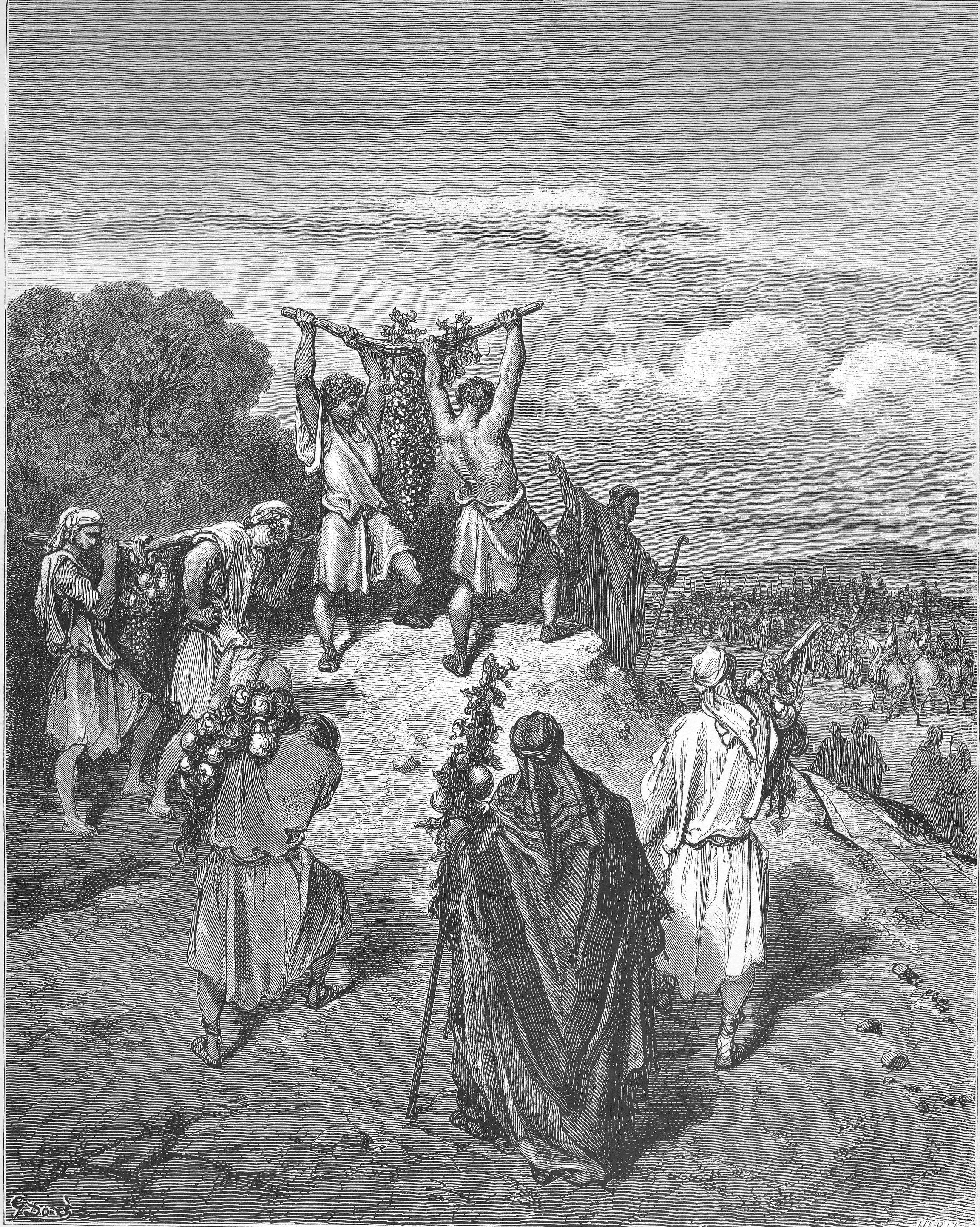 The Spies Return from the Promised Land (Num. 13:26-27)